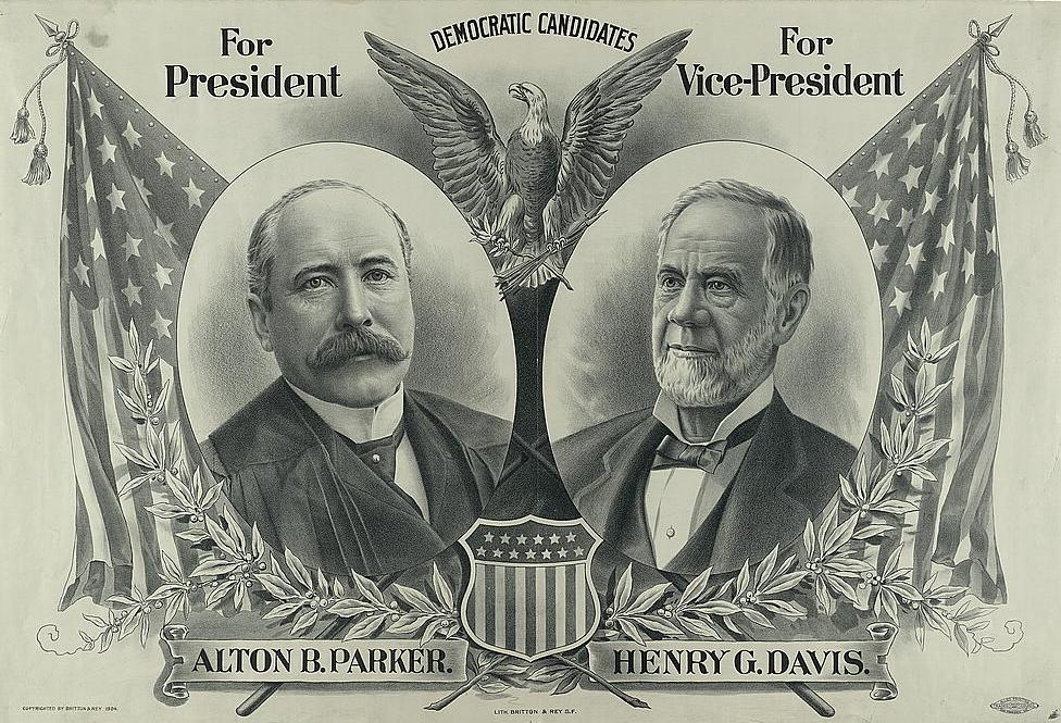 Alton B. Parker and Henry G. Davis, 1904 Democratic Party candidates for President and Vice President of the United States.